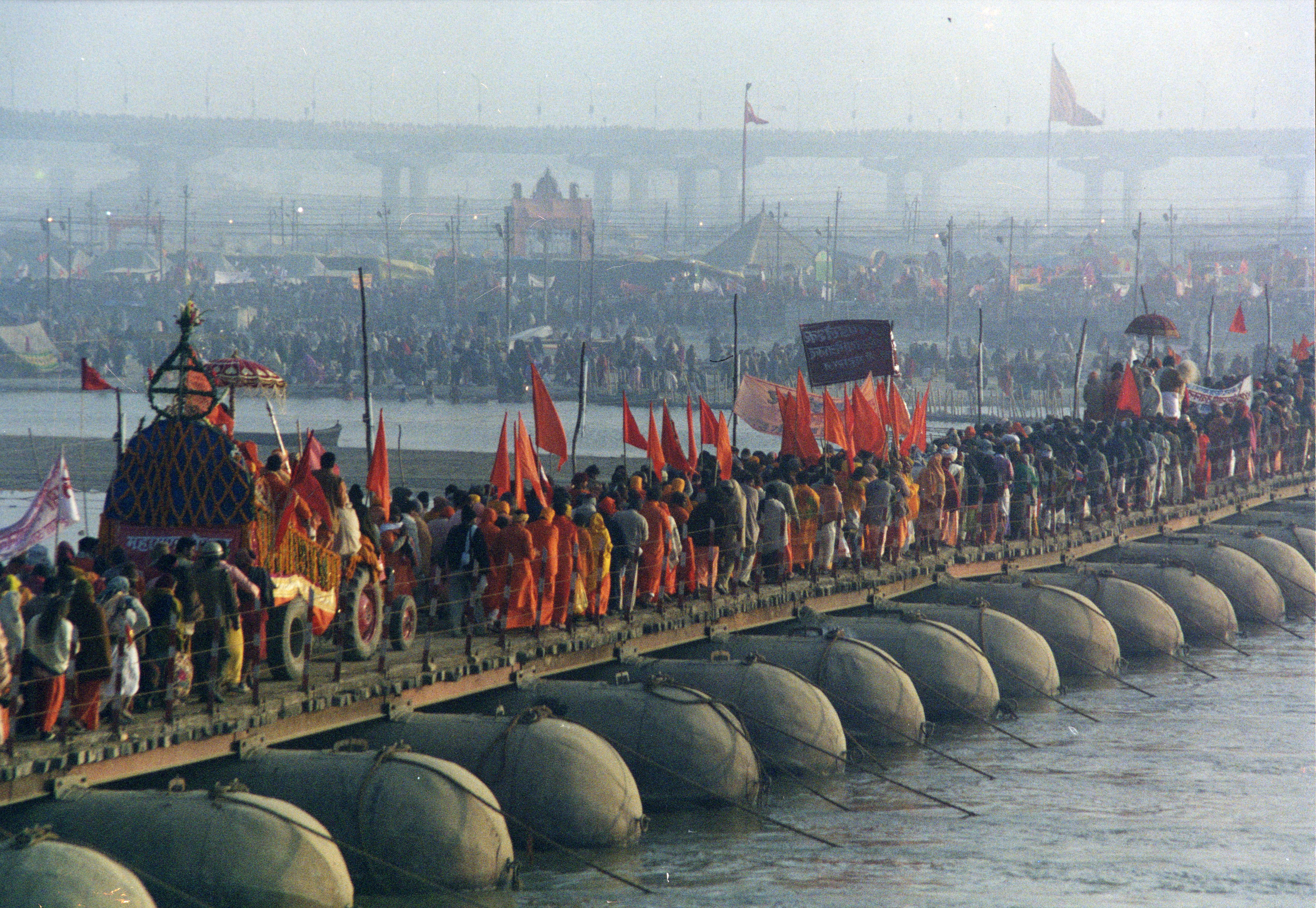 Hindu Pilgrims go over the Ganga river in the 2001 Kumbh-Mela